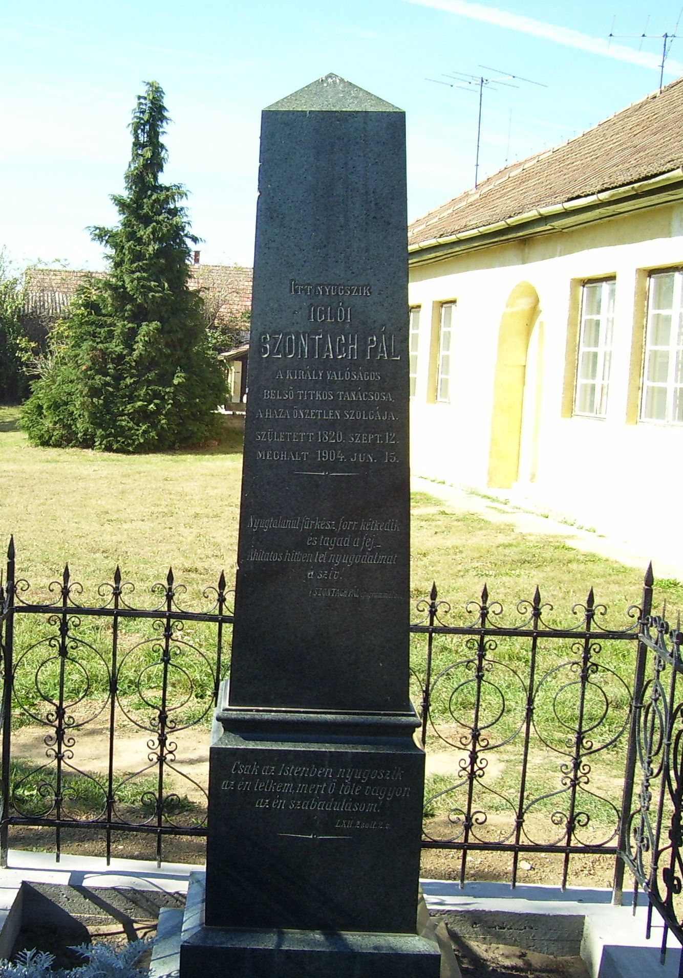 Tomb of Pál Szontagh in Horpács near to the Roman catholic church (Hungary).